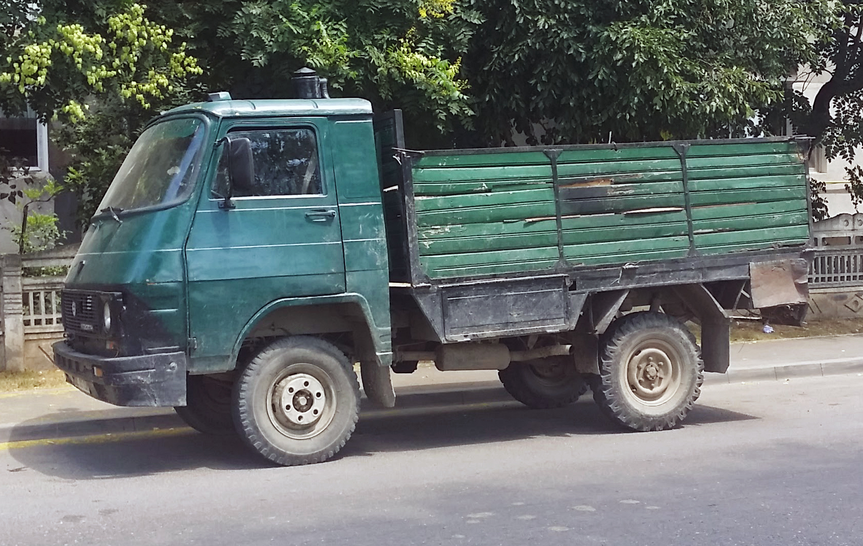 ROCAR 40 C in Rimnicu Sarat, Romania